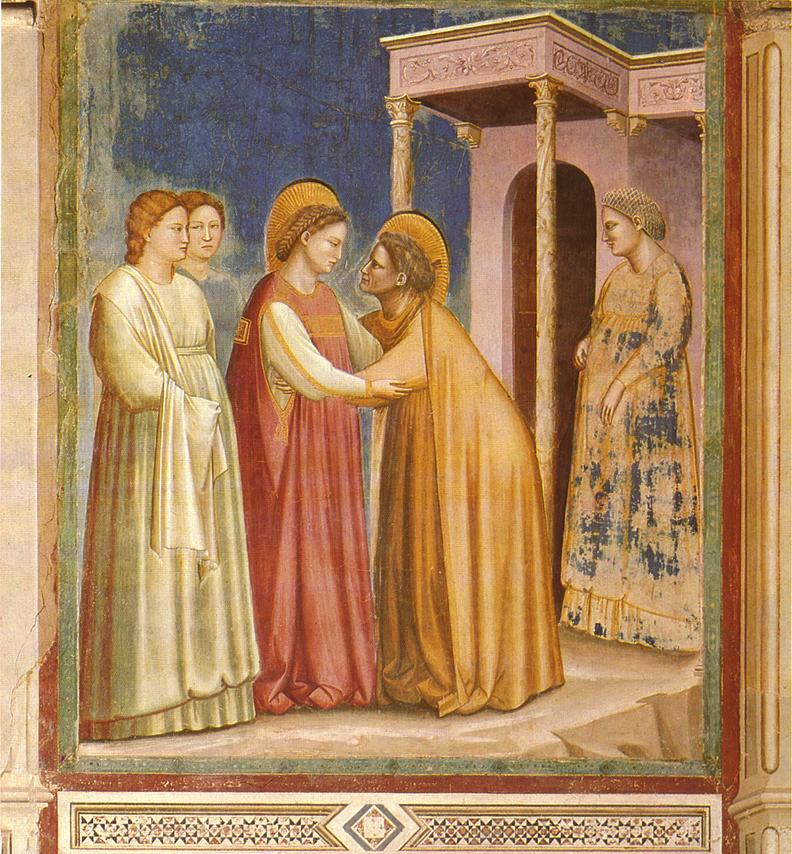 Life of the Virgin